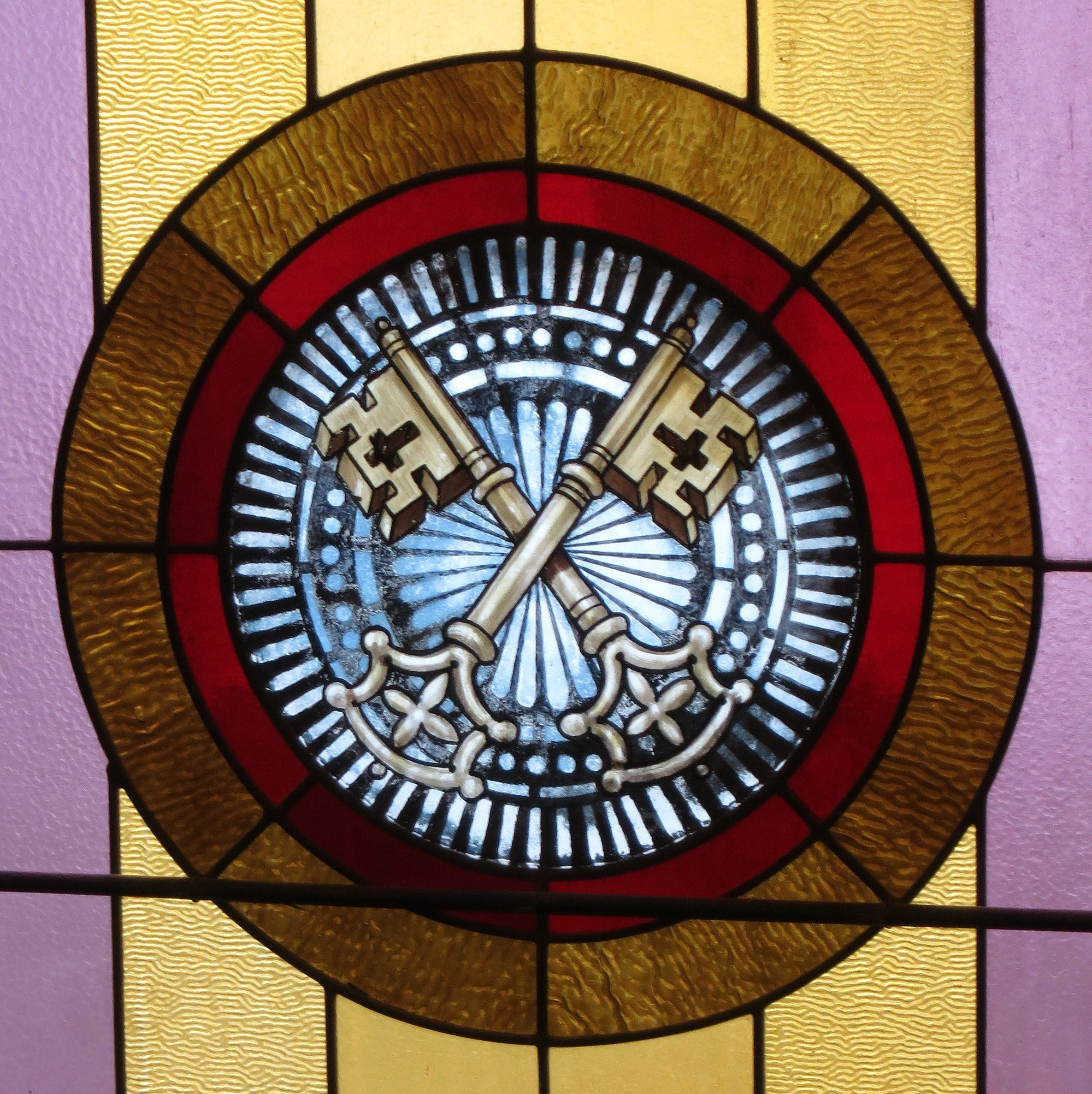 Saint Mary of the Immaculate Conception Church (Rushville, Indiana) - stained glass, Keys of Peter